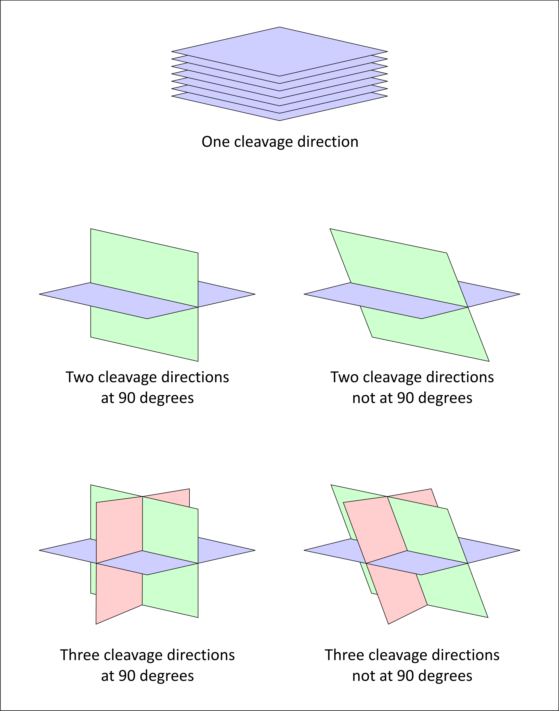 Common types of cleavage present in minerals.